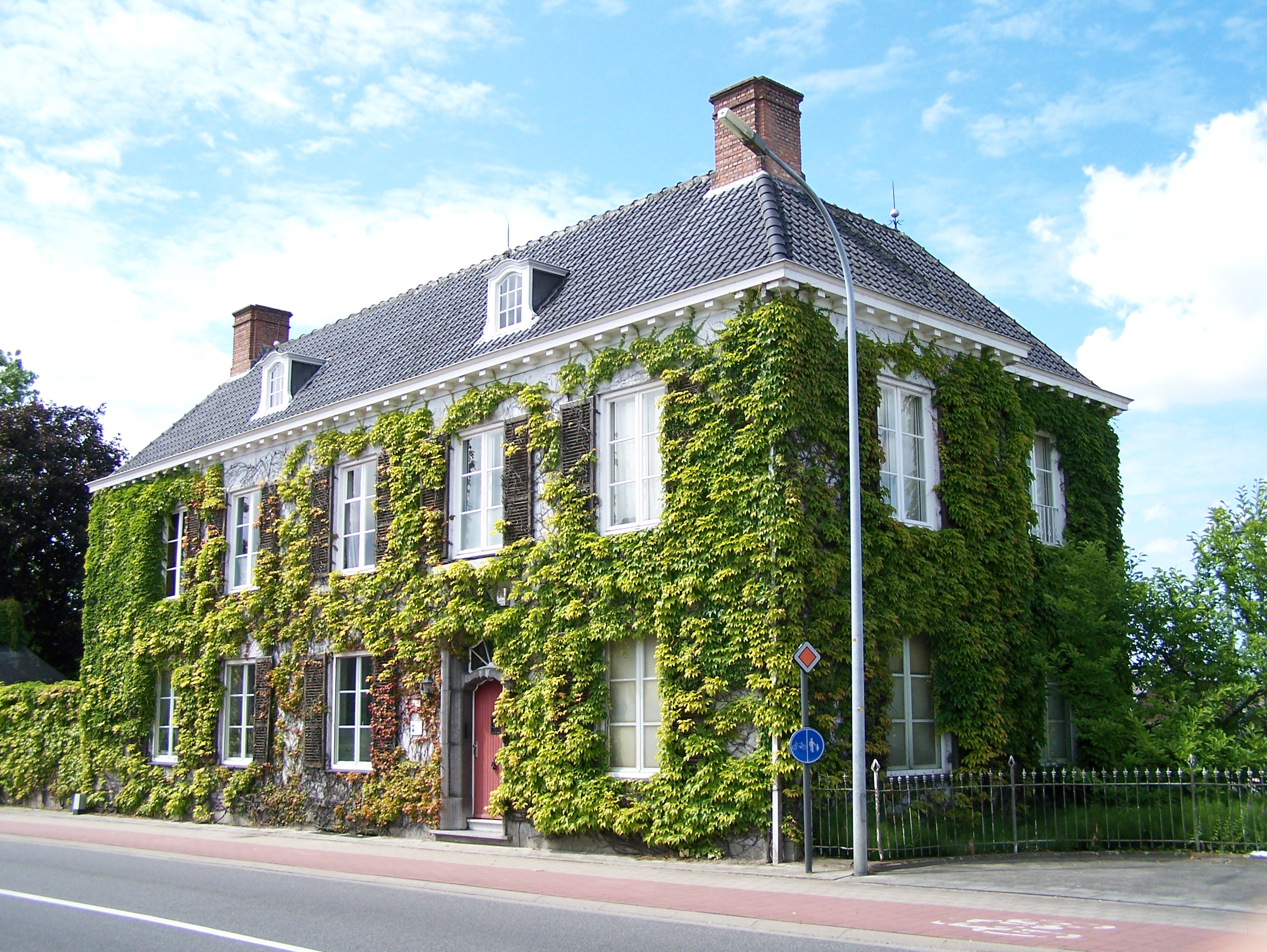 Monumental building "Het Kasteeltje" at the Molenzijde in Merksplas (Belgium). Originally build in a eclectic style in 1928 it was rebuild around 1961 in this neoclassical style.